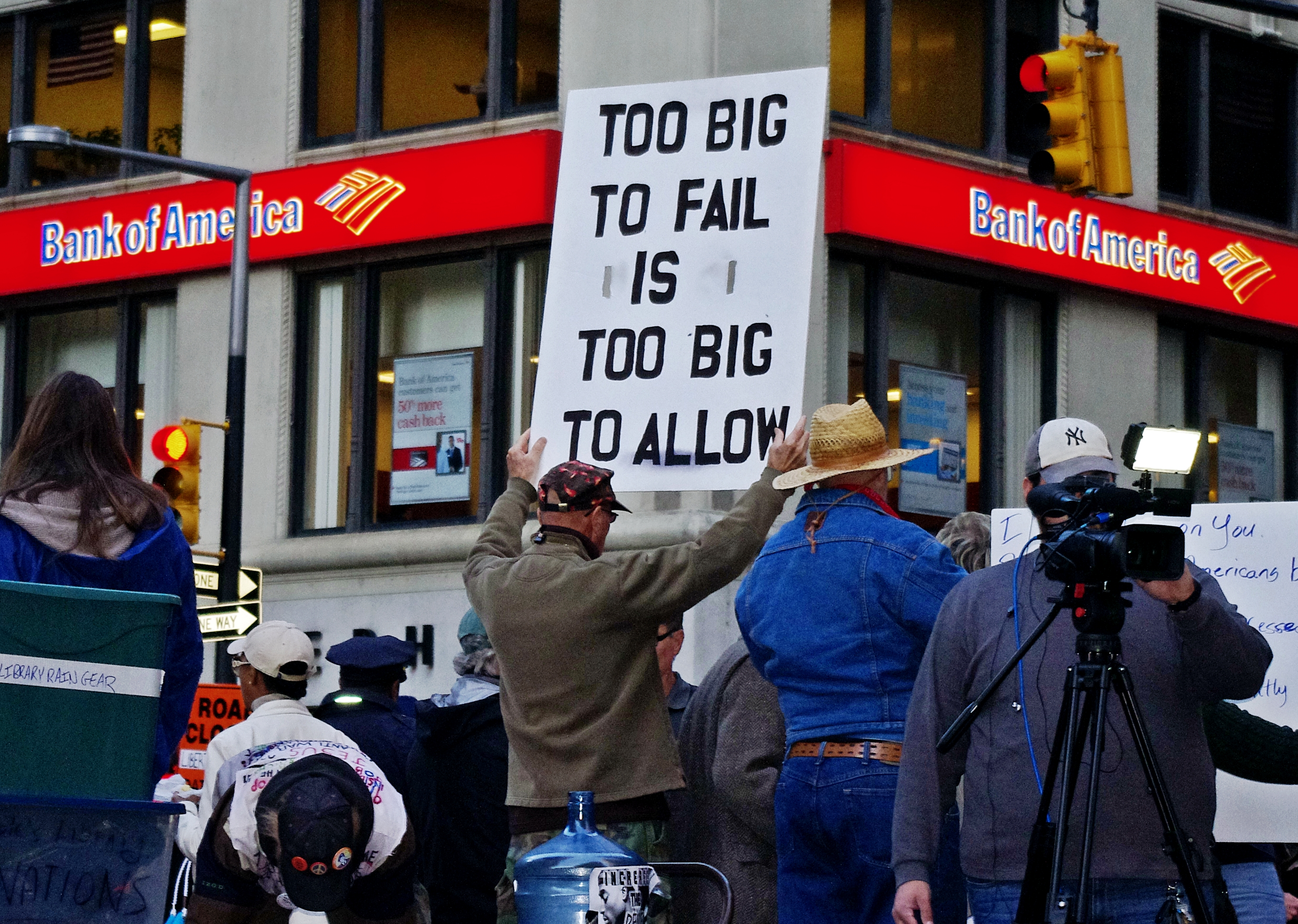 Day 40 of Occupy Wall Street in New York, Tuesday, October 25. Photos of protesters and life in Liberty Plaza.